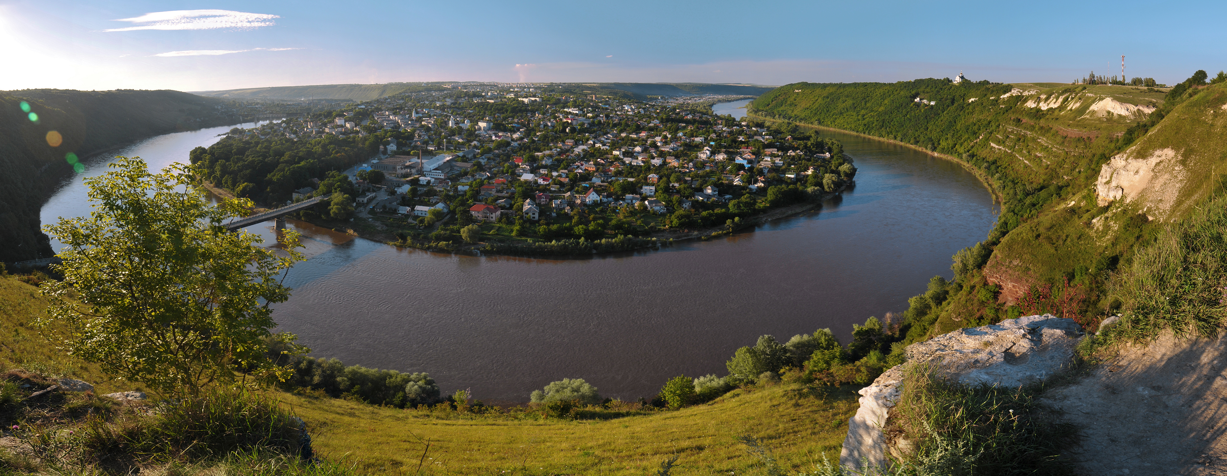 Dniester Canyon national nature park